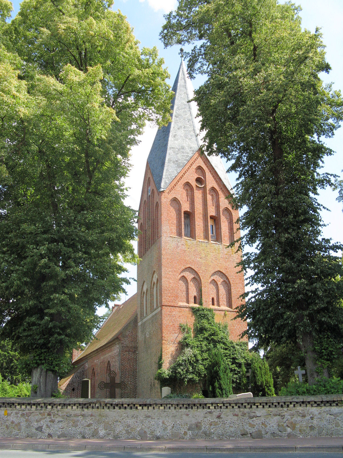 Church in Jabel, disctrict Mecklenburgische Seenplatte, Mecklenburg-Vorpommern, Germany